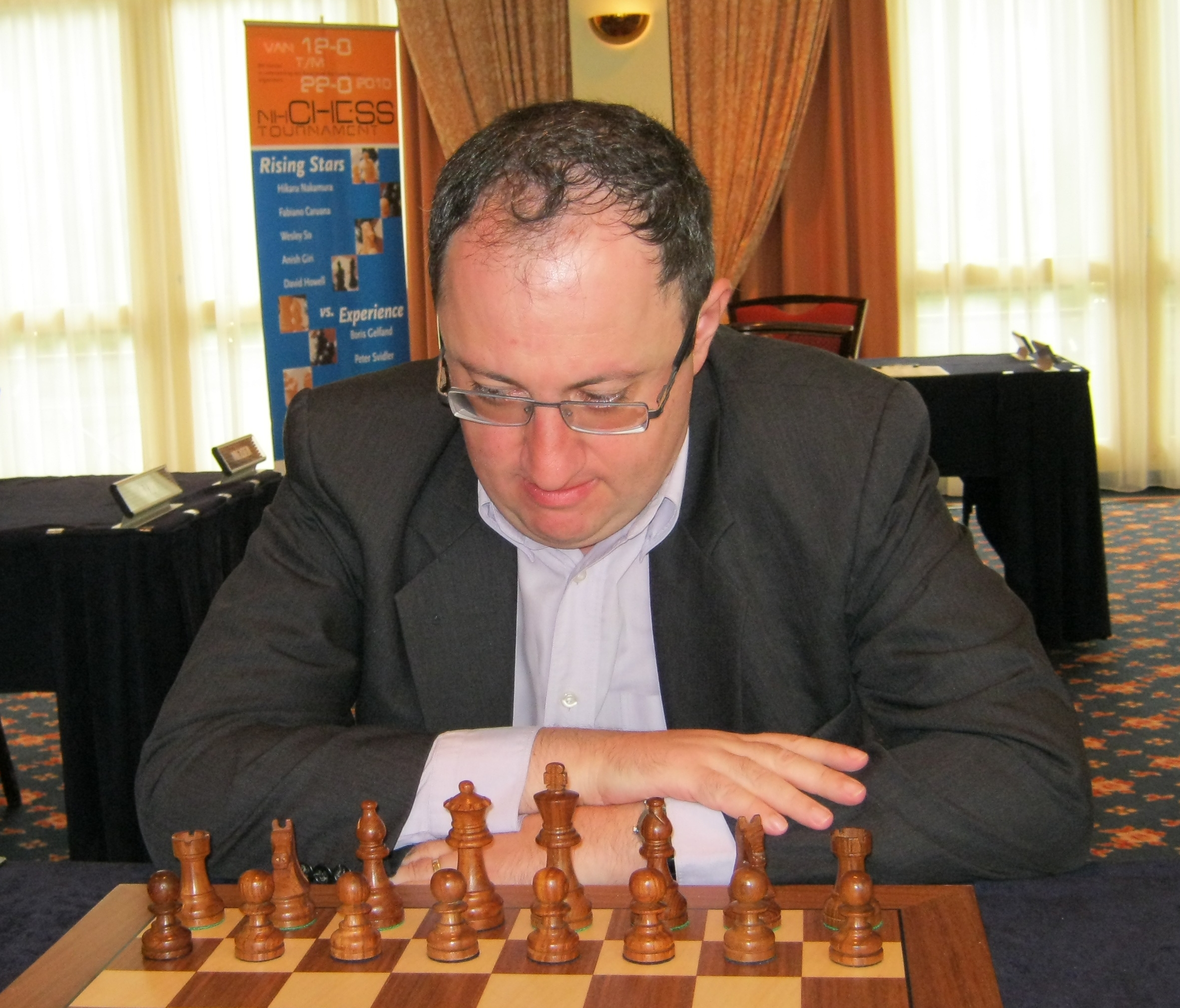 Boris Gelfand, chess grandmaster